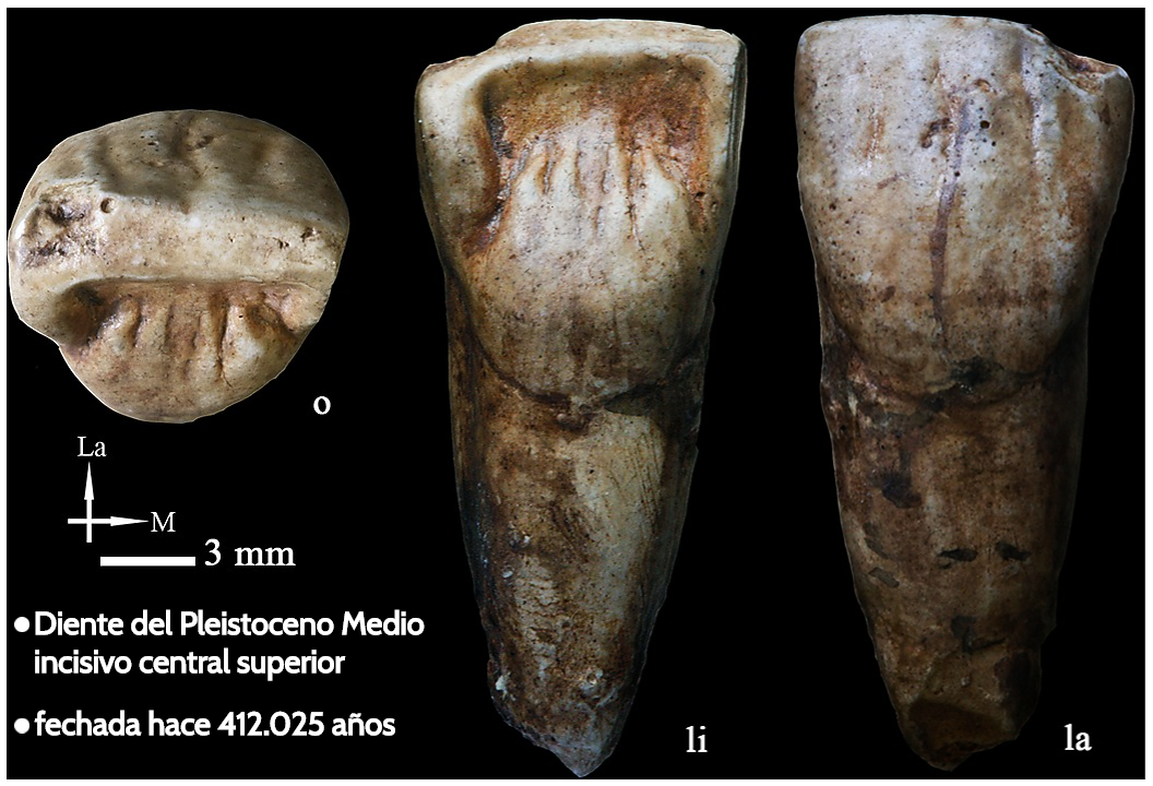 Réplica de alta calidad del diente incisivo central superior de un hominina del Pleistoceno medio (PA835)